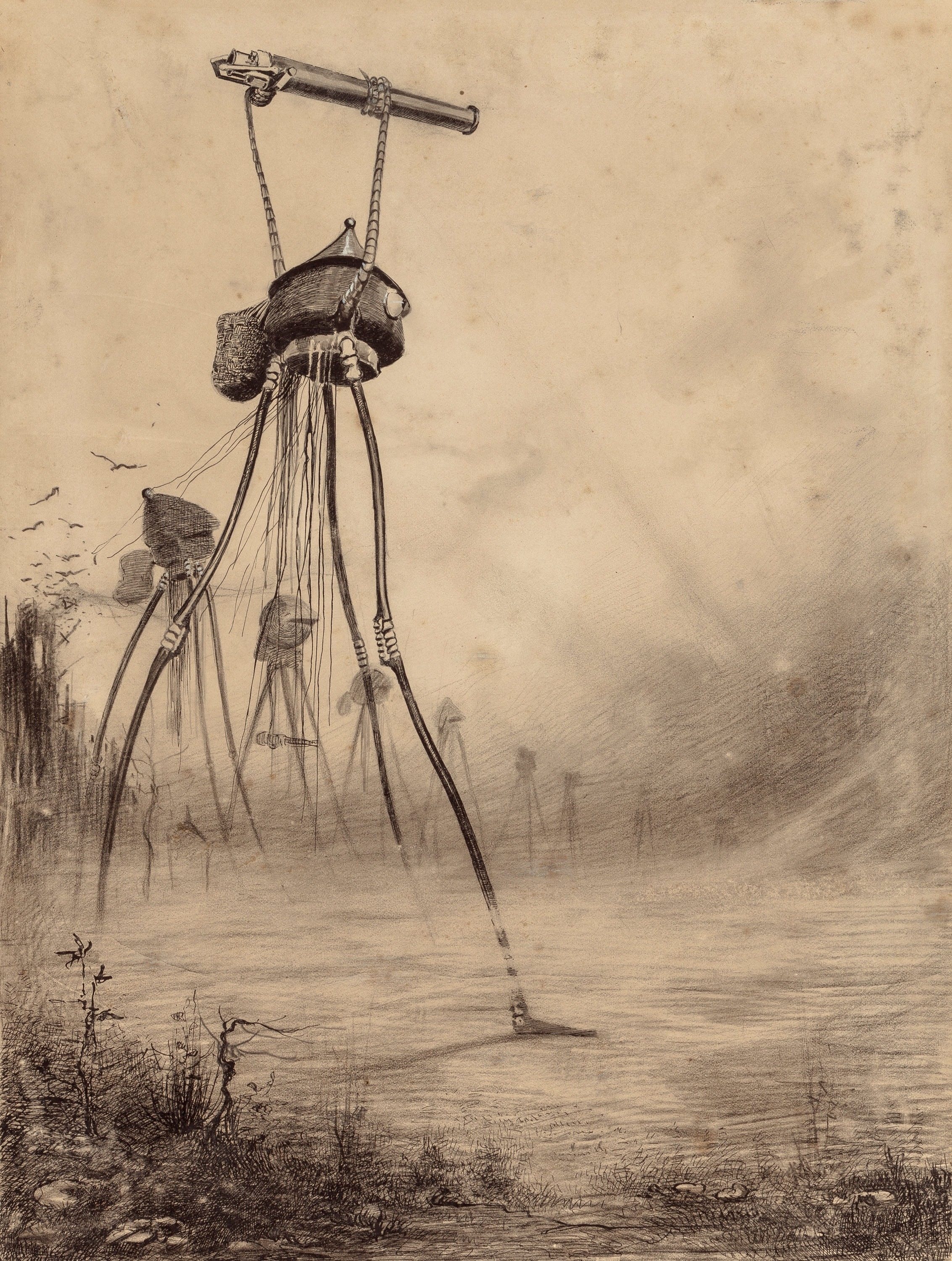 Illustration by Henrique Alvim Corrêa, from the 1906 Belgium (French language) edition of H.G. Wells' "The War of the Worlds", 1906. A scan from the orginal graphic. Orginal caption / oryginalny opis